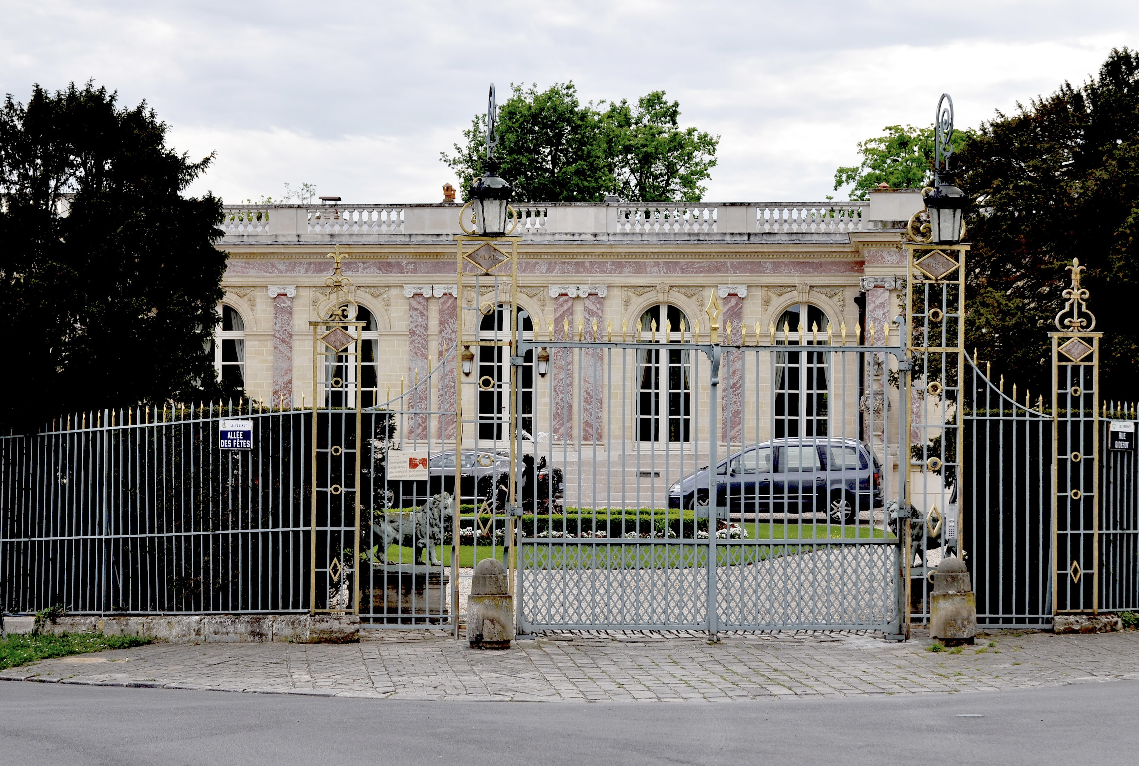 Palais Rose in Le Vésinet, department of Yvelines, France. The mansion is a replica of Grand Trianon and was built about 1899 for the shipowner Schweitzer.